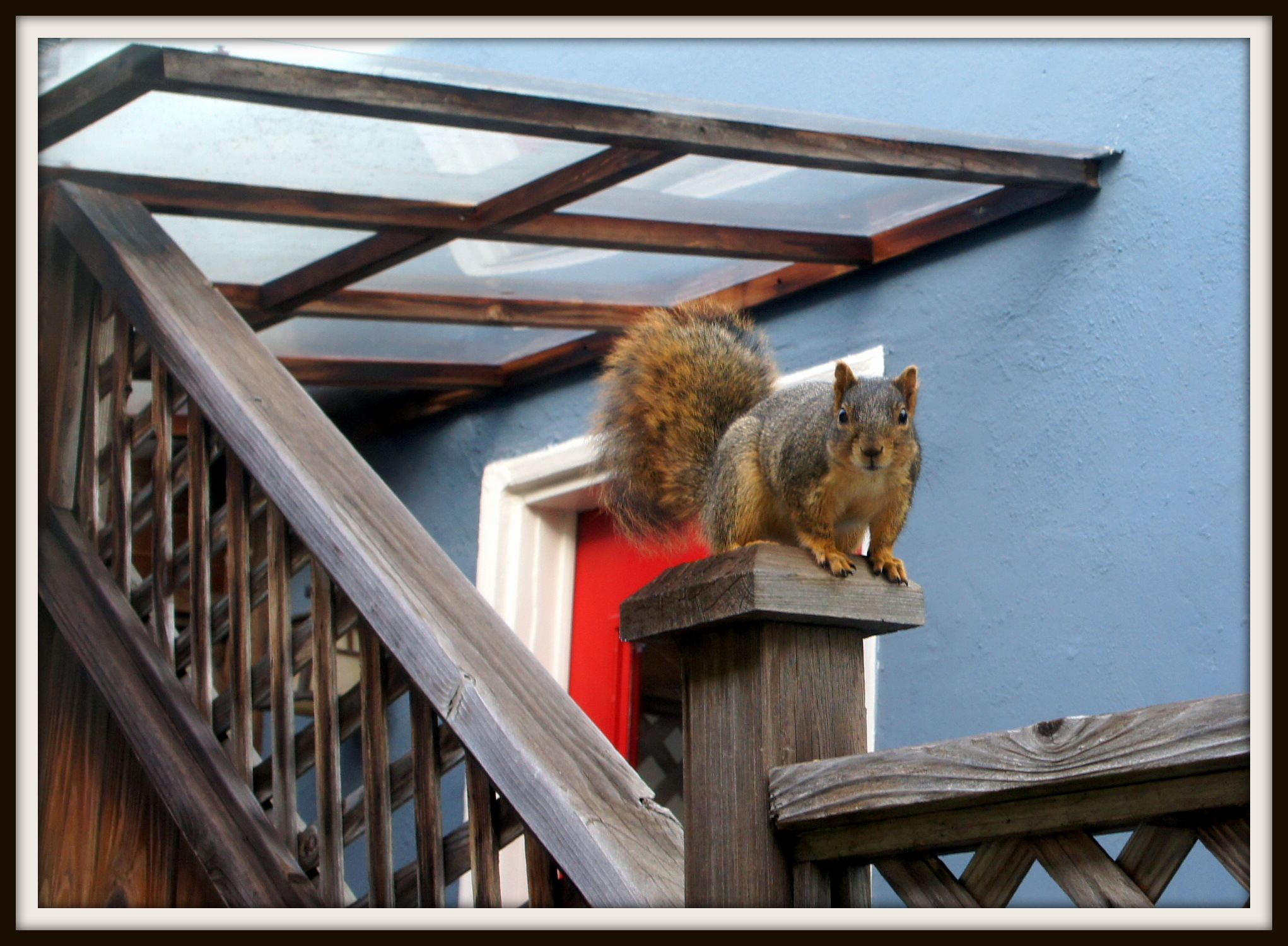 Eastern Fox Squirrel pausing from building his nest in our attic, this shows his comfort in urban density.